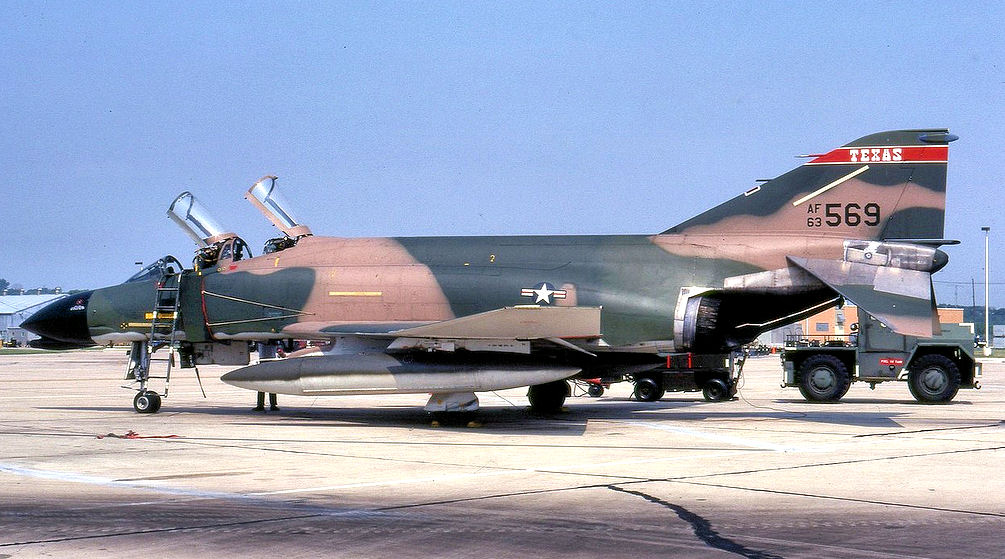 182d Tactical Fighter Squadron - McDonnell F-4C-19-MC Phantom 63-7569. Retired to AMARC as FP0057 Apr 21, 1987